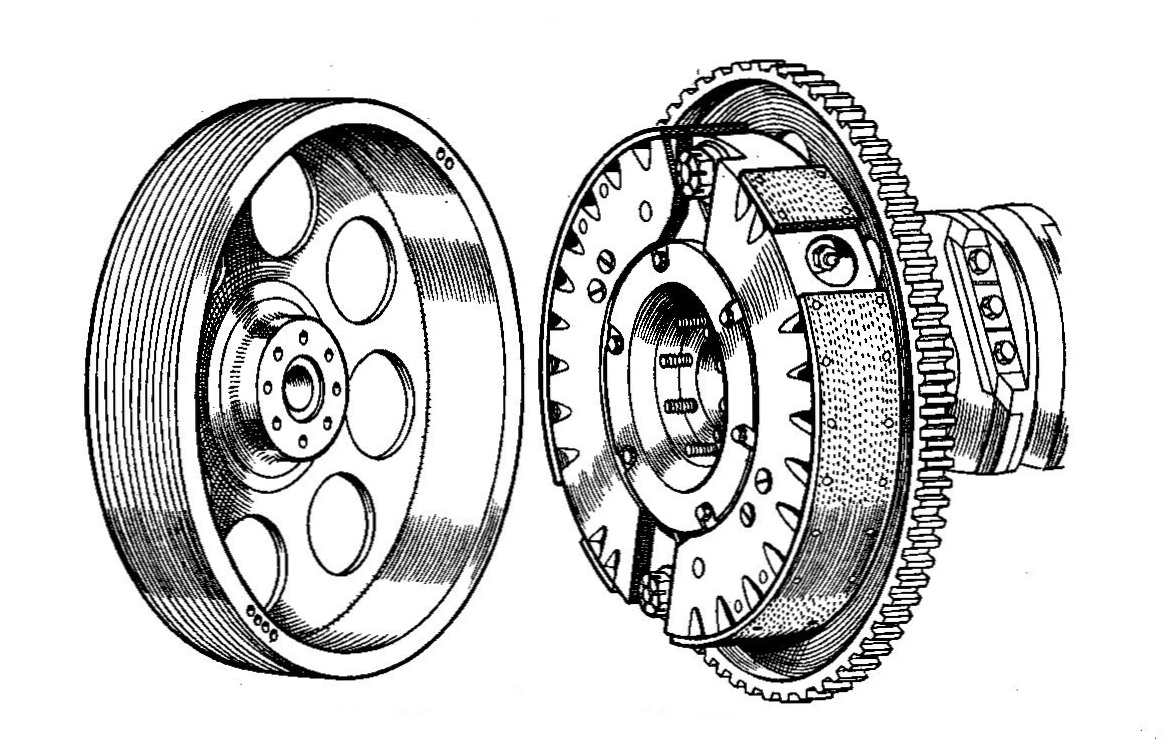 Talbot 'Traffic Clutch' automatic centrifugal clutch (Autocar Handbook, 13th ed, 1935).jpg